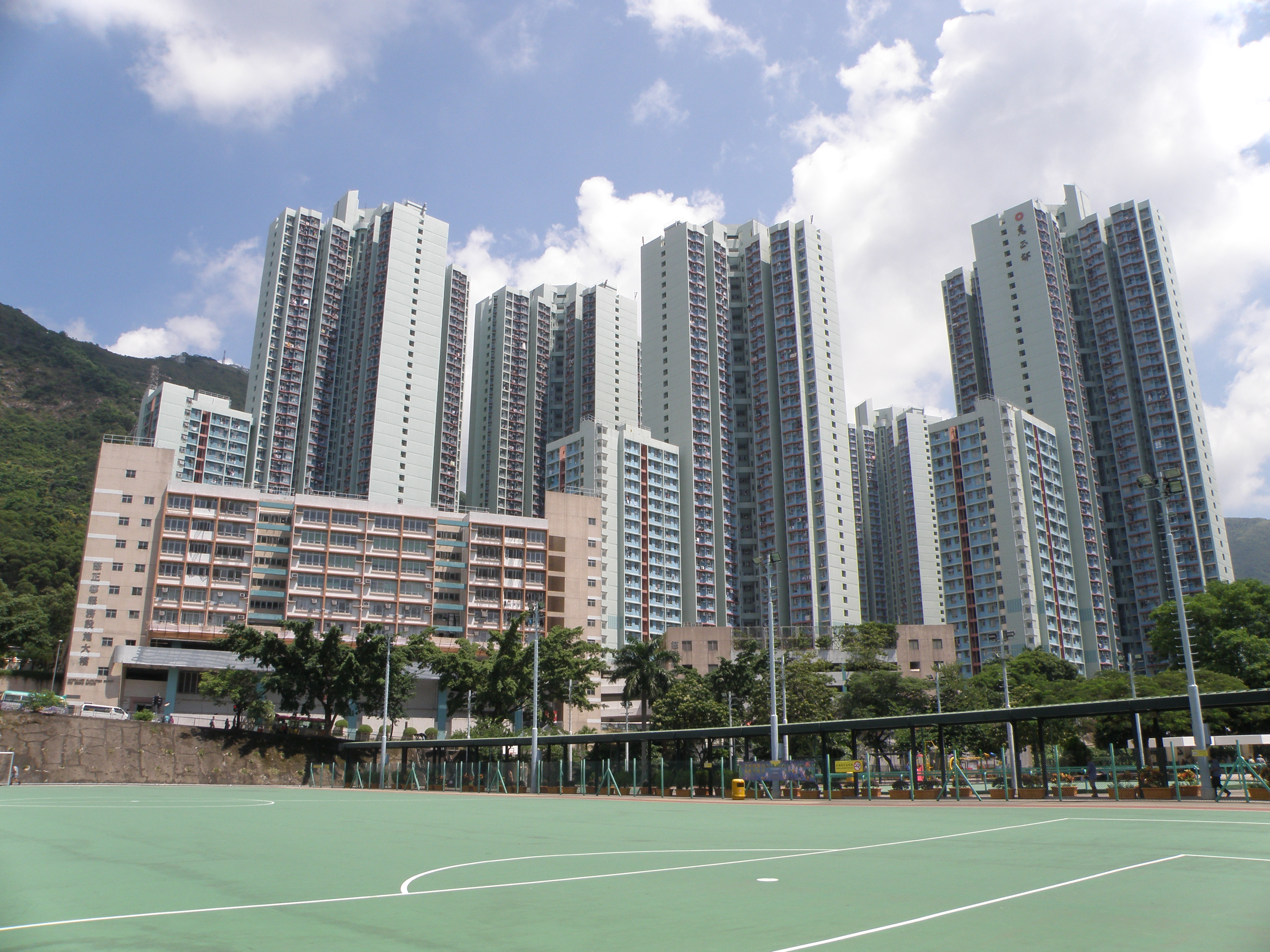 Tsz Ching Estate in Tsz Wan Shan, Hong Kong.